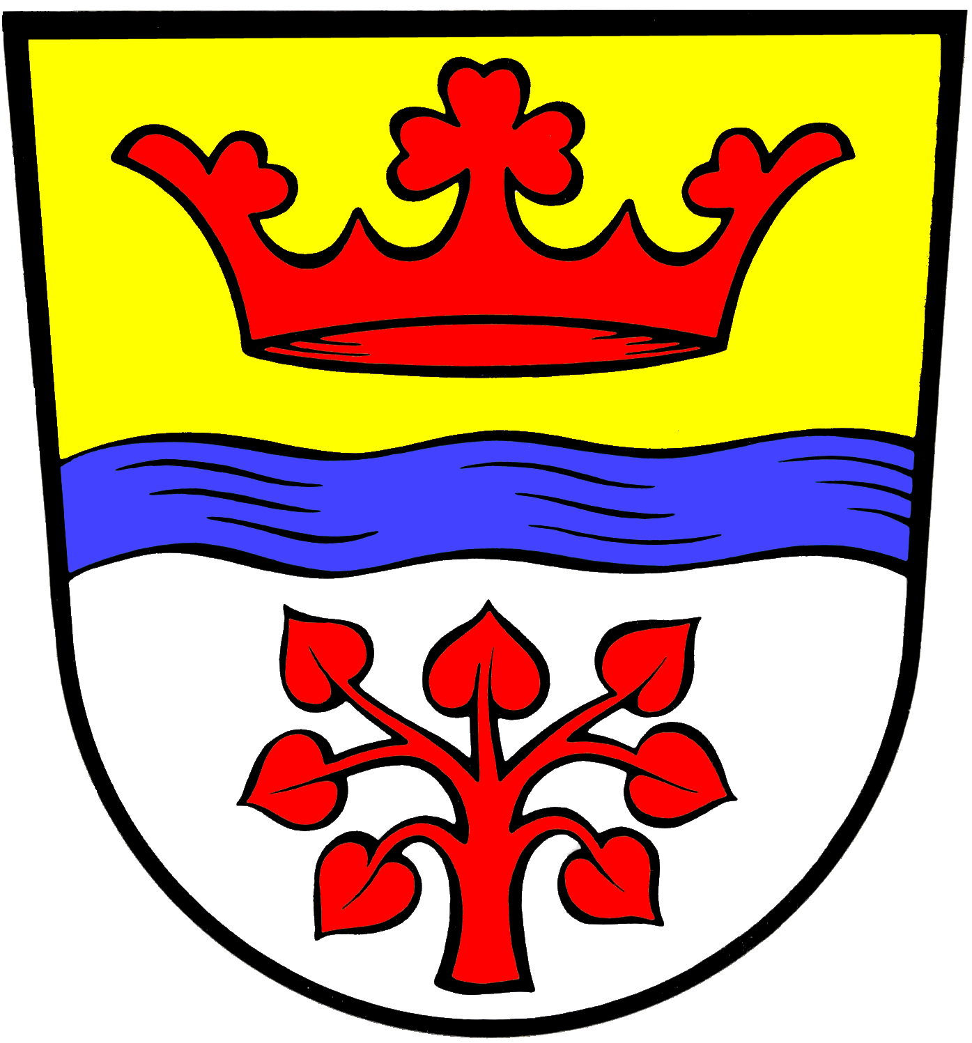 Coat of arms of Gräfelfing, Bavaria, Germany